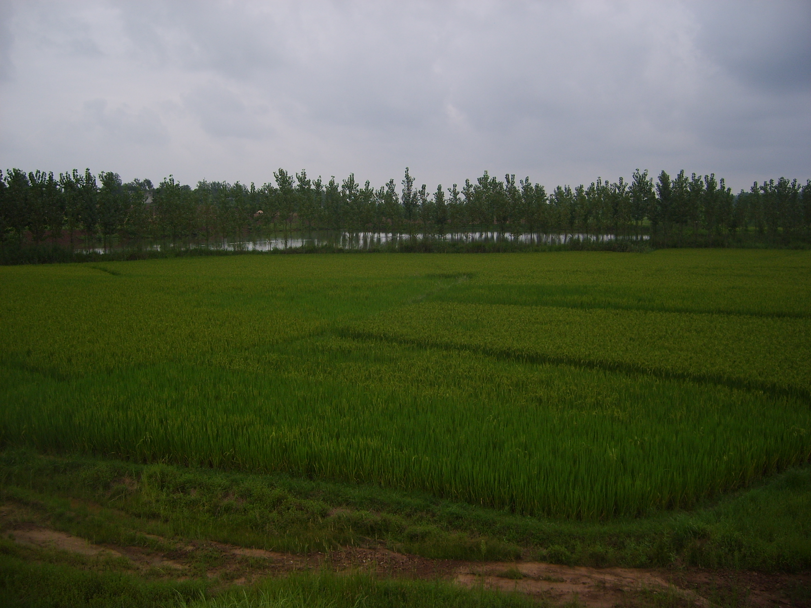 A country view of Gushi, China 中文（中国大陆）: 固始县田园风光